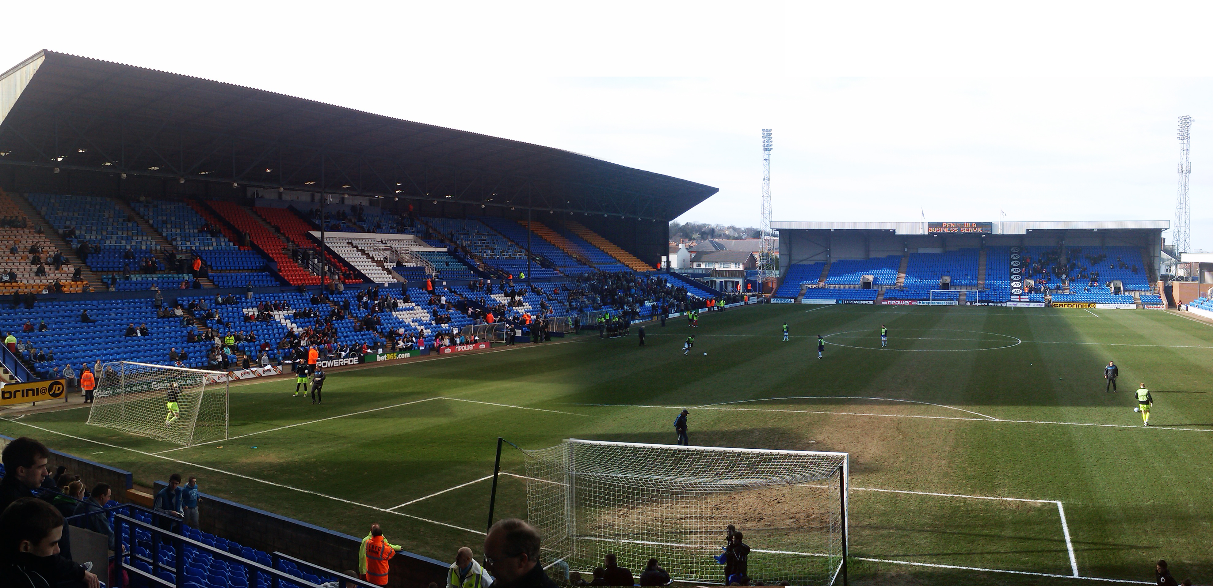 View from The Kop towards the main stand and cowshed at Prenton Park.